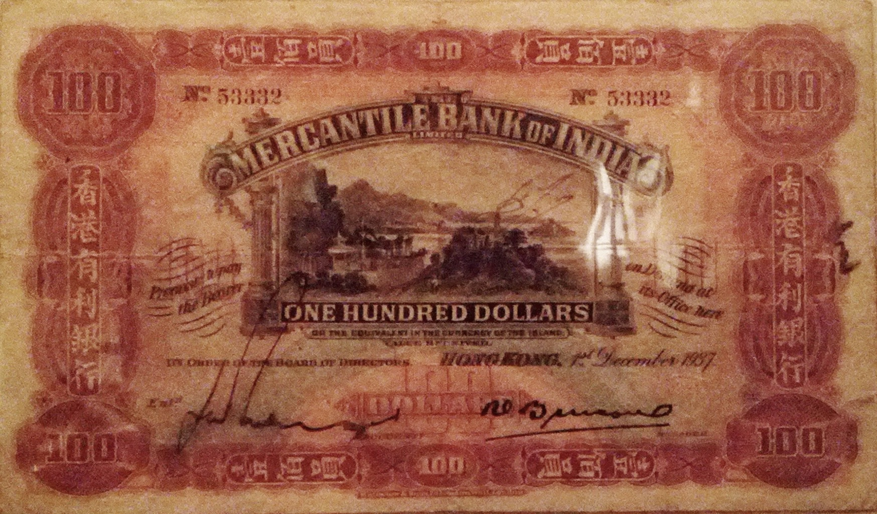 100 HKD Banknote issued by Hong Kong Branch of Mercantile Bank in 1937. Signature by Hong Kong manager of the bank, Donovan Benson, can be seen at the bottom right portion of the banknote.